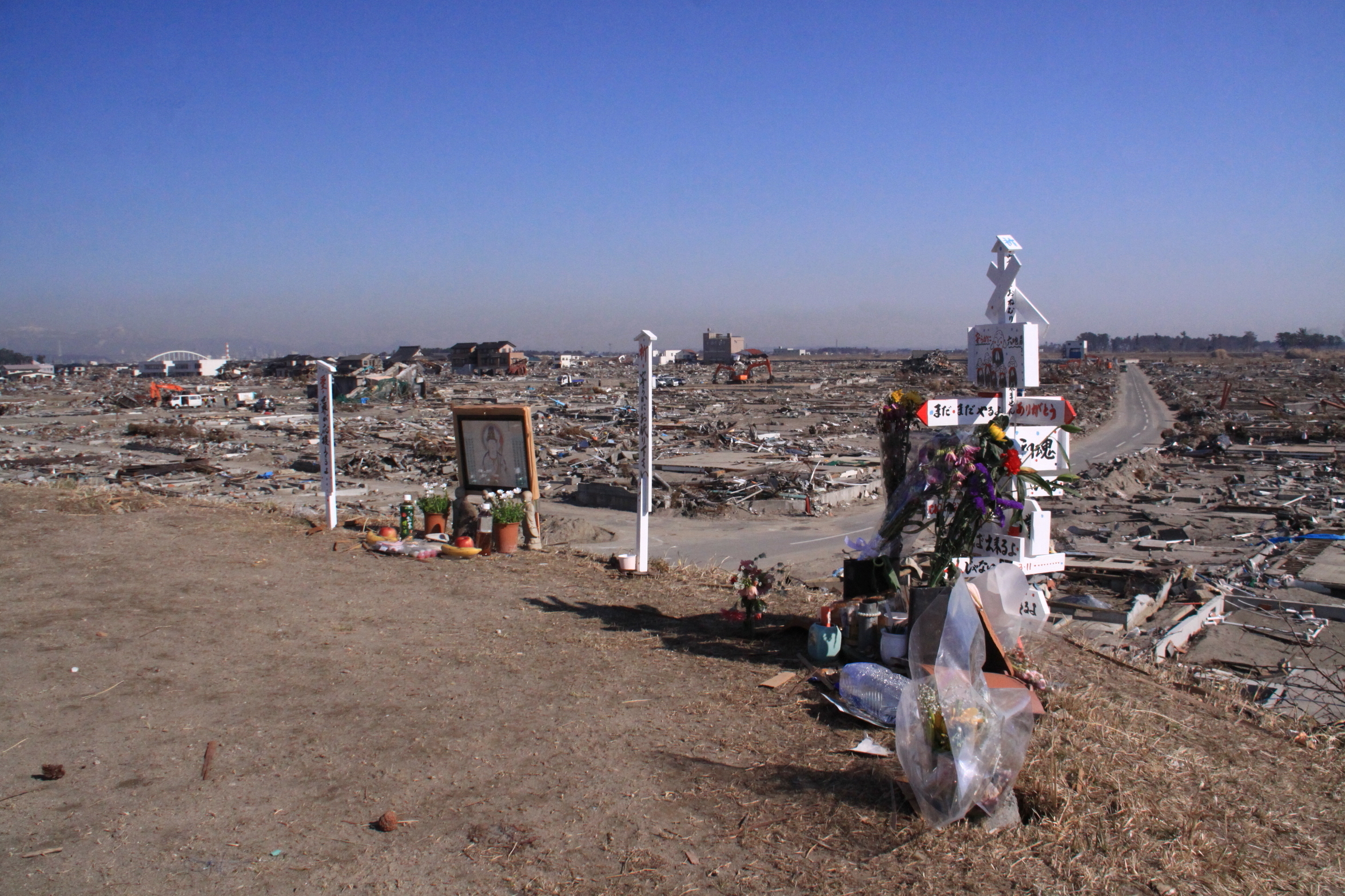 Someone set a Buddhist painting and signposts of prayer and wish at the top of Mt. Hiyoriyama, a 6.3m high man-made hill in Natori, Miyagi where the tsunamis attacked.